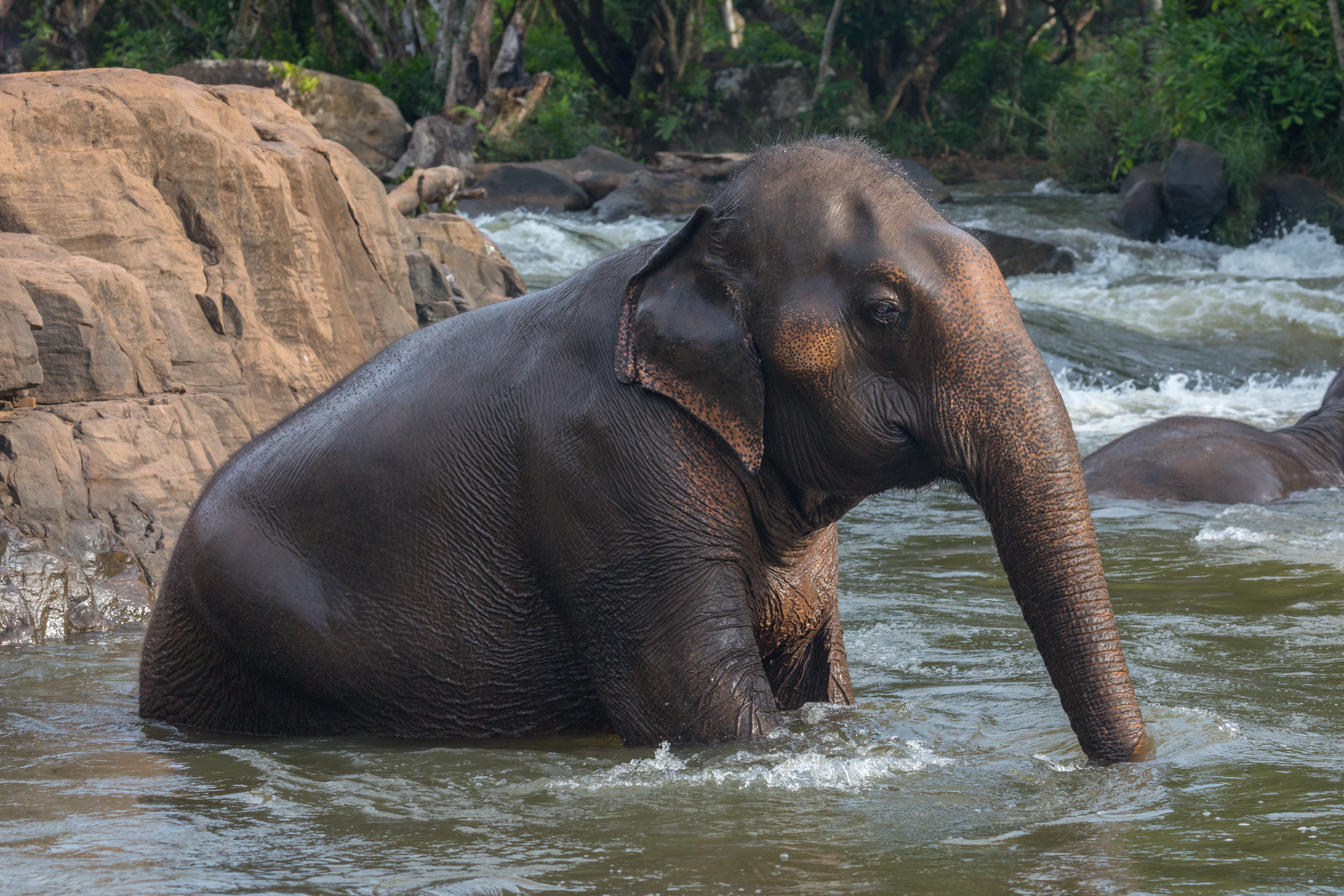 Side view of a sitting Asian elephant (Elephas maximus) bathing in Tad Lo river, Laos